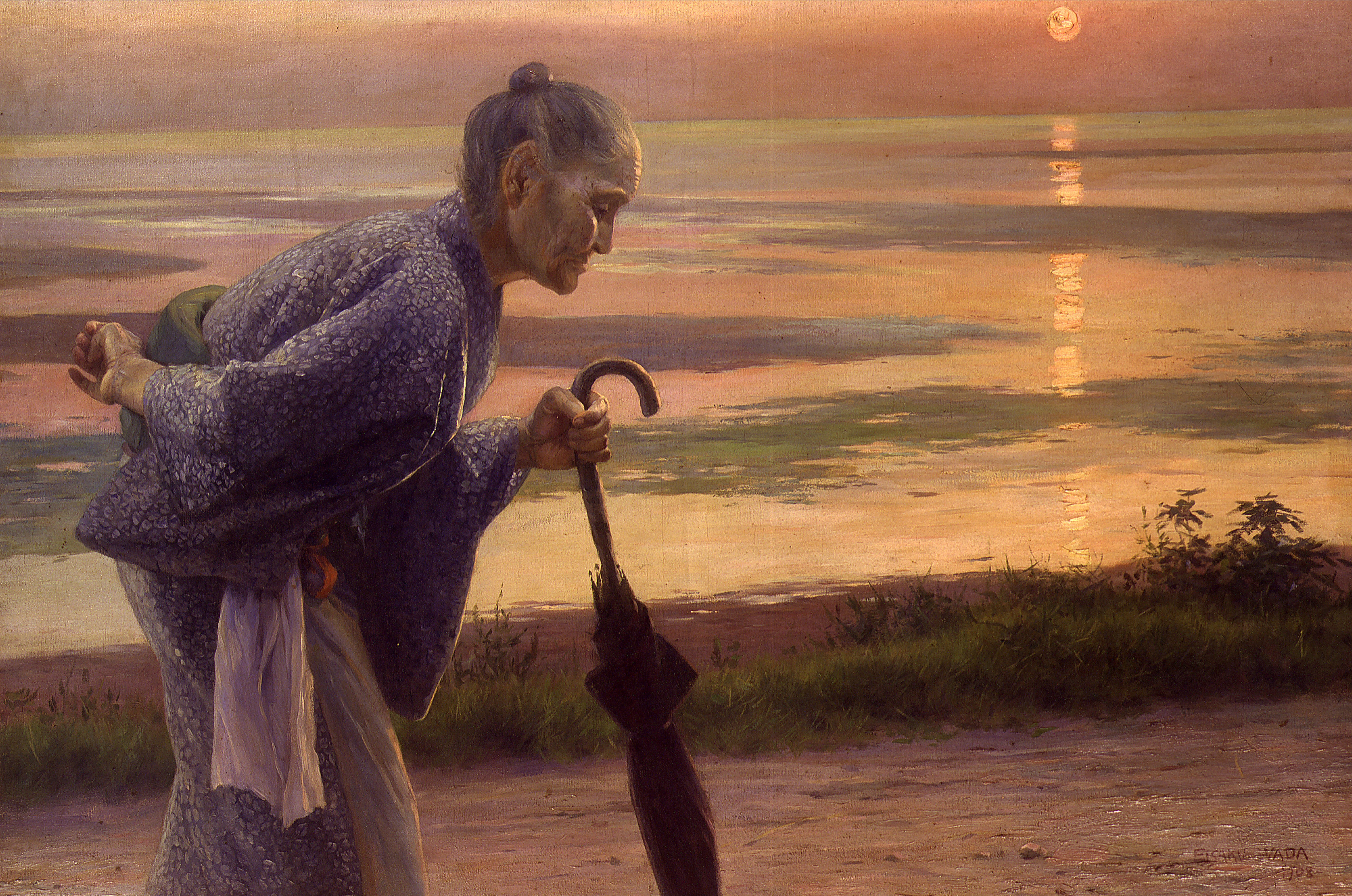 Old Woman, by Wada Eisaku, National Museum of Modern Art, Tokyo, Japan